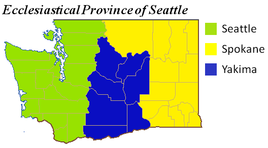 The Province of Seattle in the Catholic Church encompasses the entire state of Washington, USA.